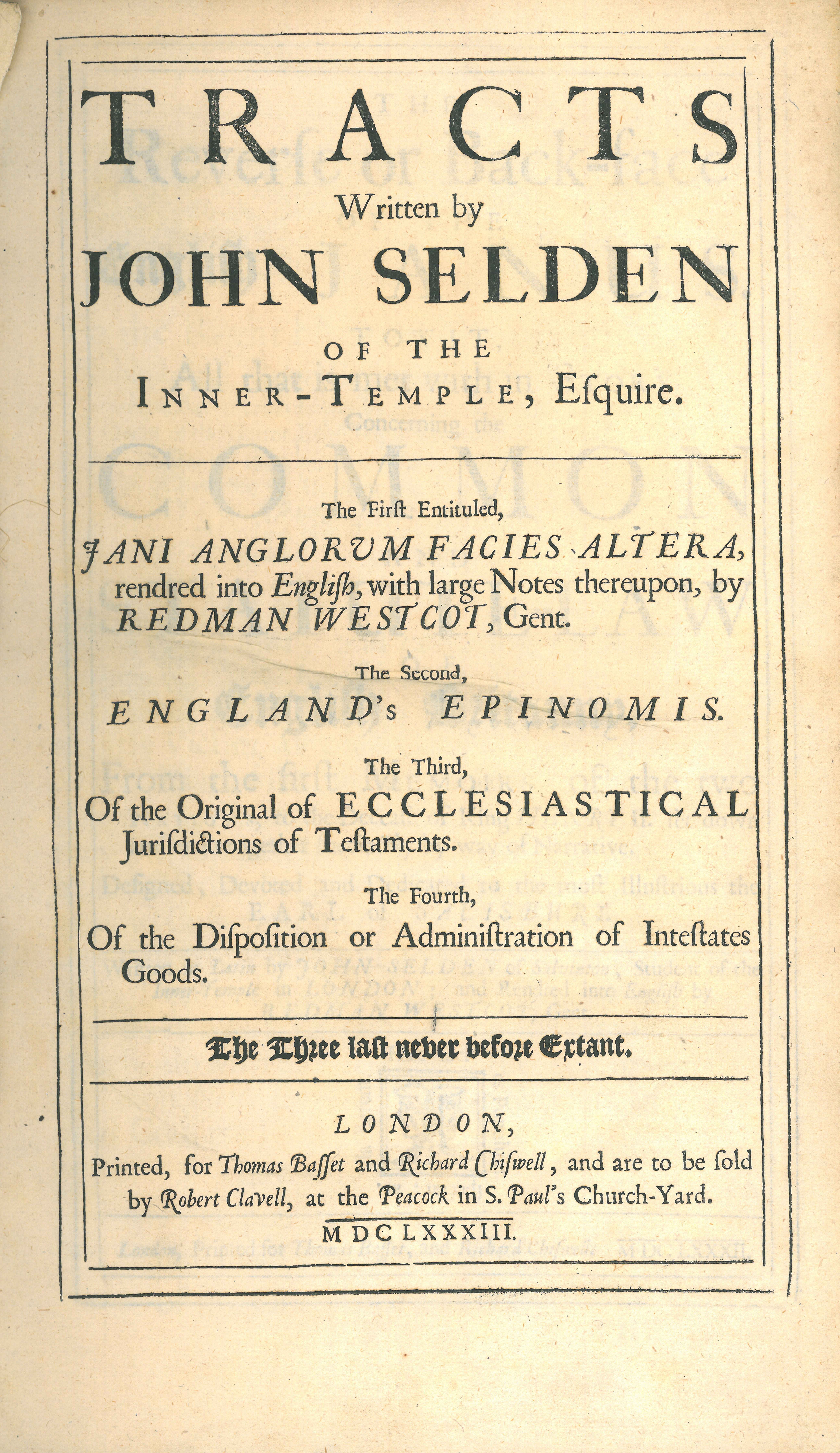 Title page of John Selden (1683) Tracts Written by John Selden of the Inner-Temple, Esquire. The First Entituled, Jani Anglorum Facies Altera, Rendred into English, with Large Notes thereupon, by Redman Westcot, Gent. [pseudonym for Adam Littleton] The Second, England's Epinomis. The Third, Of the Original of Ecclesiastical Jurisdictions of Testaments. The Fourth, Of the Disposition or Administration of Intestates Goods. The Three Last never before Extant (1st ed.), London: Printed, for Thomas Basset and Richard Chiswell, and are to be sold by Robert Clavell, at the Peacock in S. Paul’s Church-Yard OCLC: 761859602.